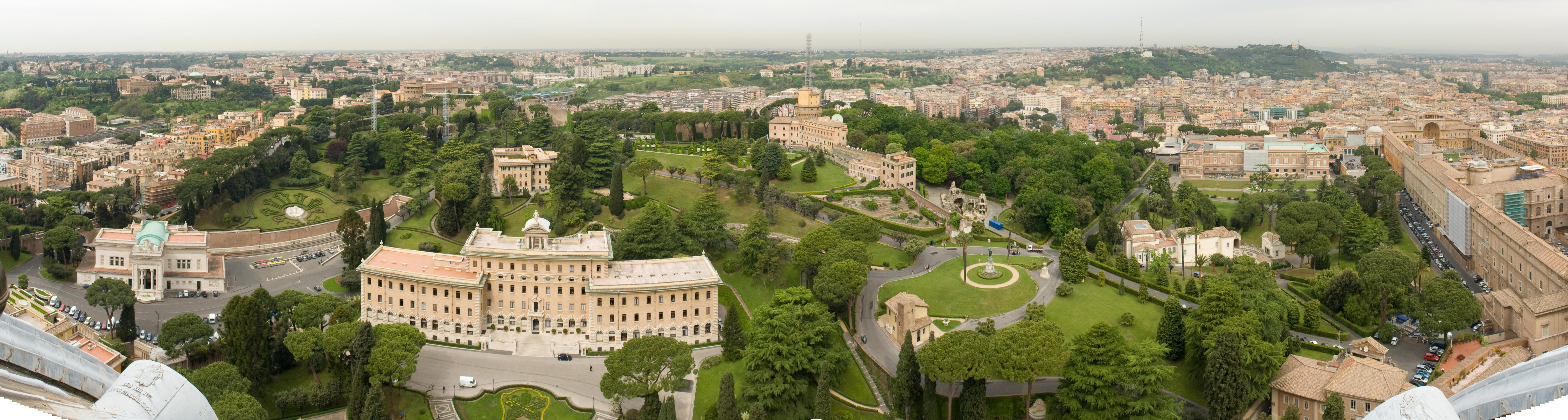 This panorama, shot from the top of St. Peter's Basilica, shows pretty much all that there is to Vatican City. Taken during our recent trip to Rome. Stitched from 4 handheld shots. The corners are missing, but I didn't want to crop it any more than I already did...